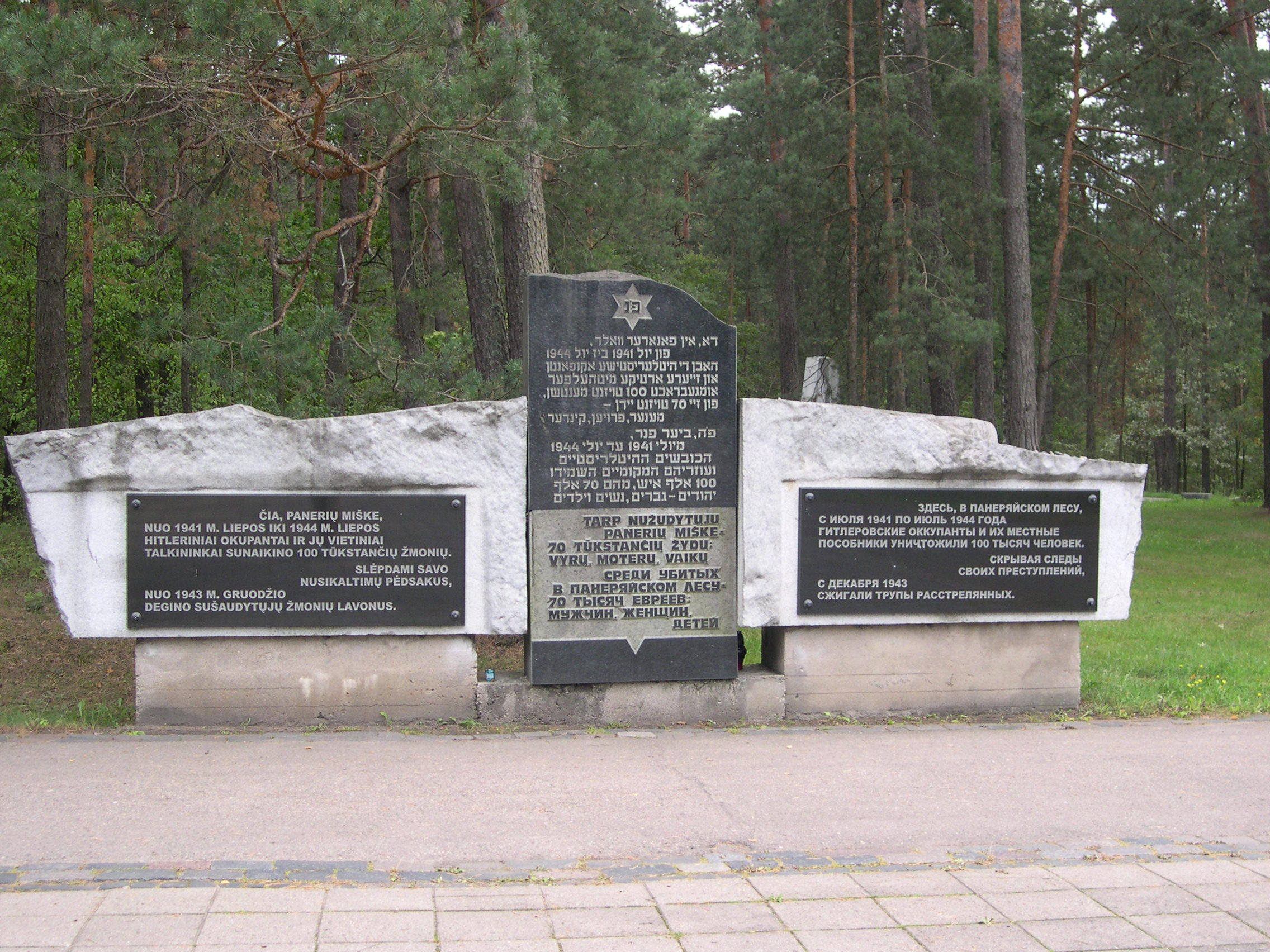 The monuments on the edge of the Paneriai site known for mass executions of Jews during the Holocaust